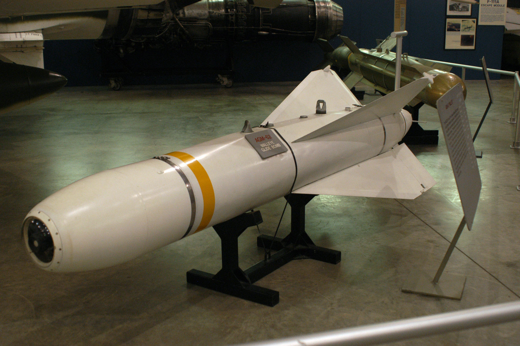 DAYTON, Ohio - Martin Marietta AGM-62 Walleye on display at the National Museum of the U.S. Air Force. (U.S. Air Force photo)